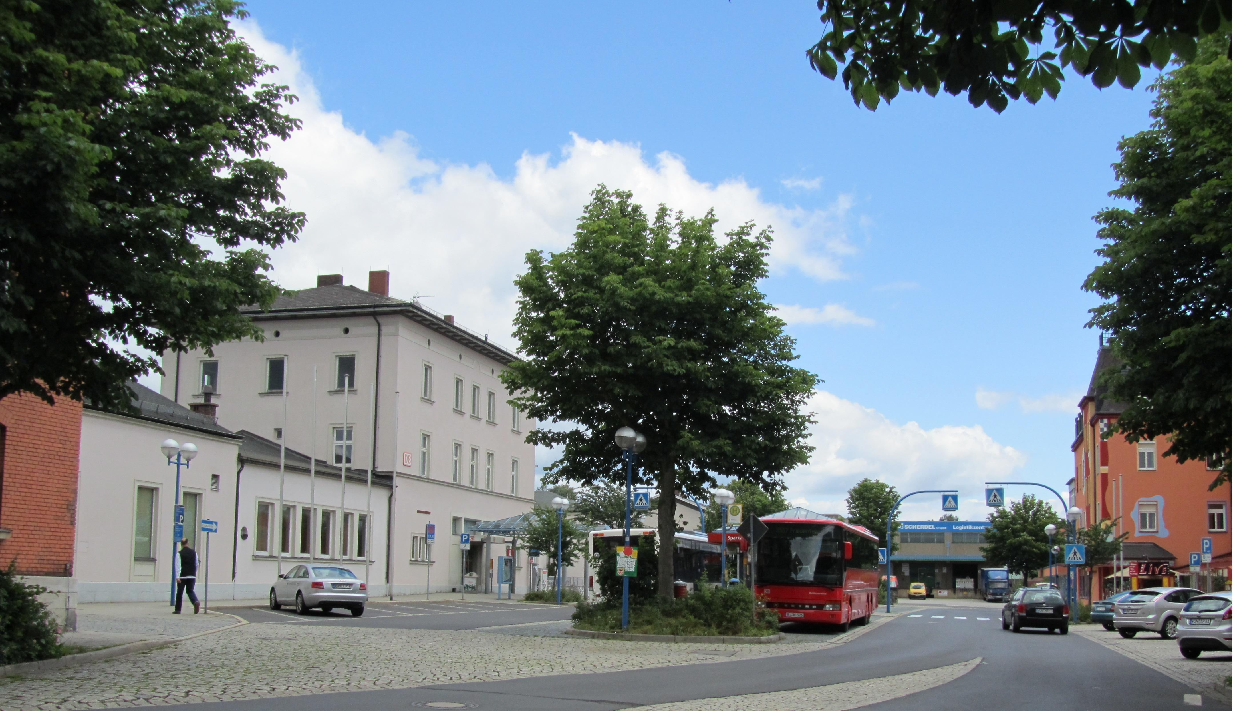 Sight on the station square in Marktredwitz